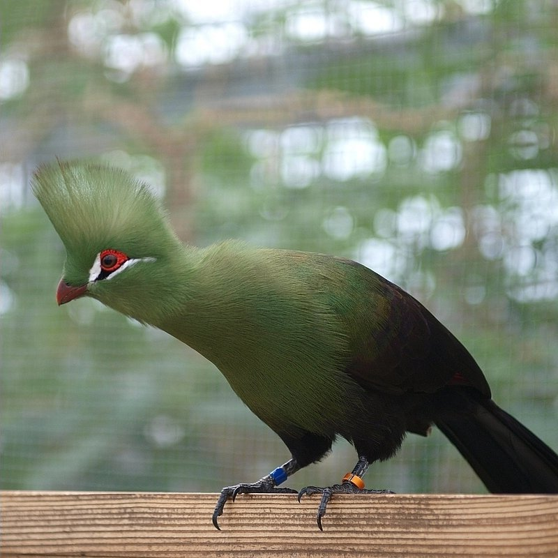 A Guinea Turaco in captivity.